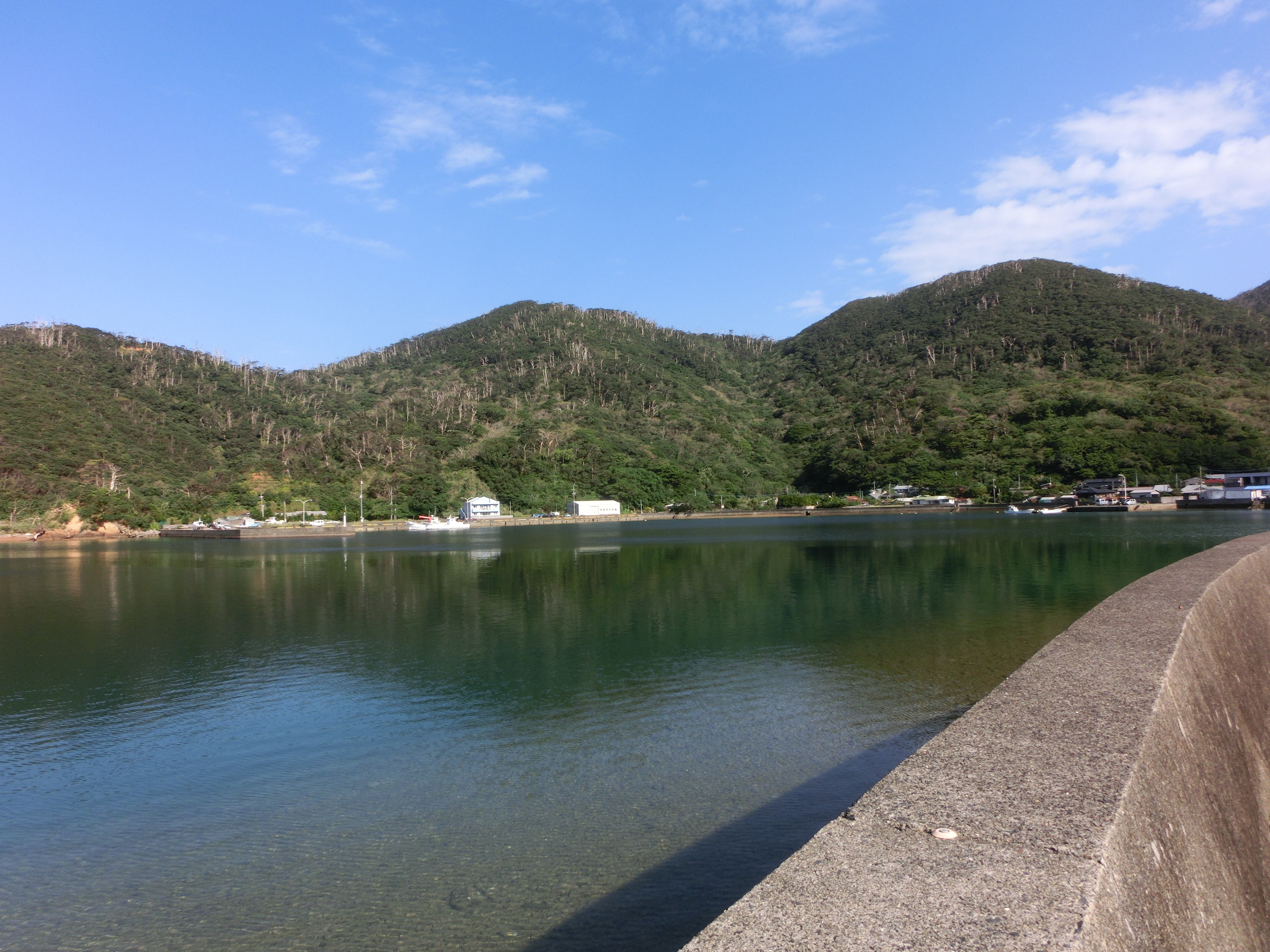 Uken vilagge